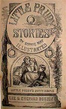 Frontispiece of the Little Prudy book by Rebecca Sophia Clarke or "Sophie May" (1833-1906).